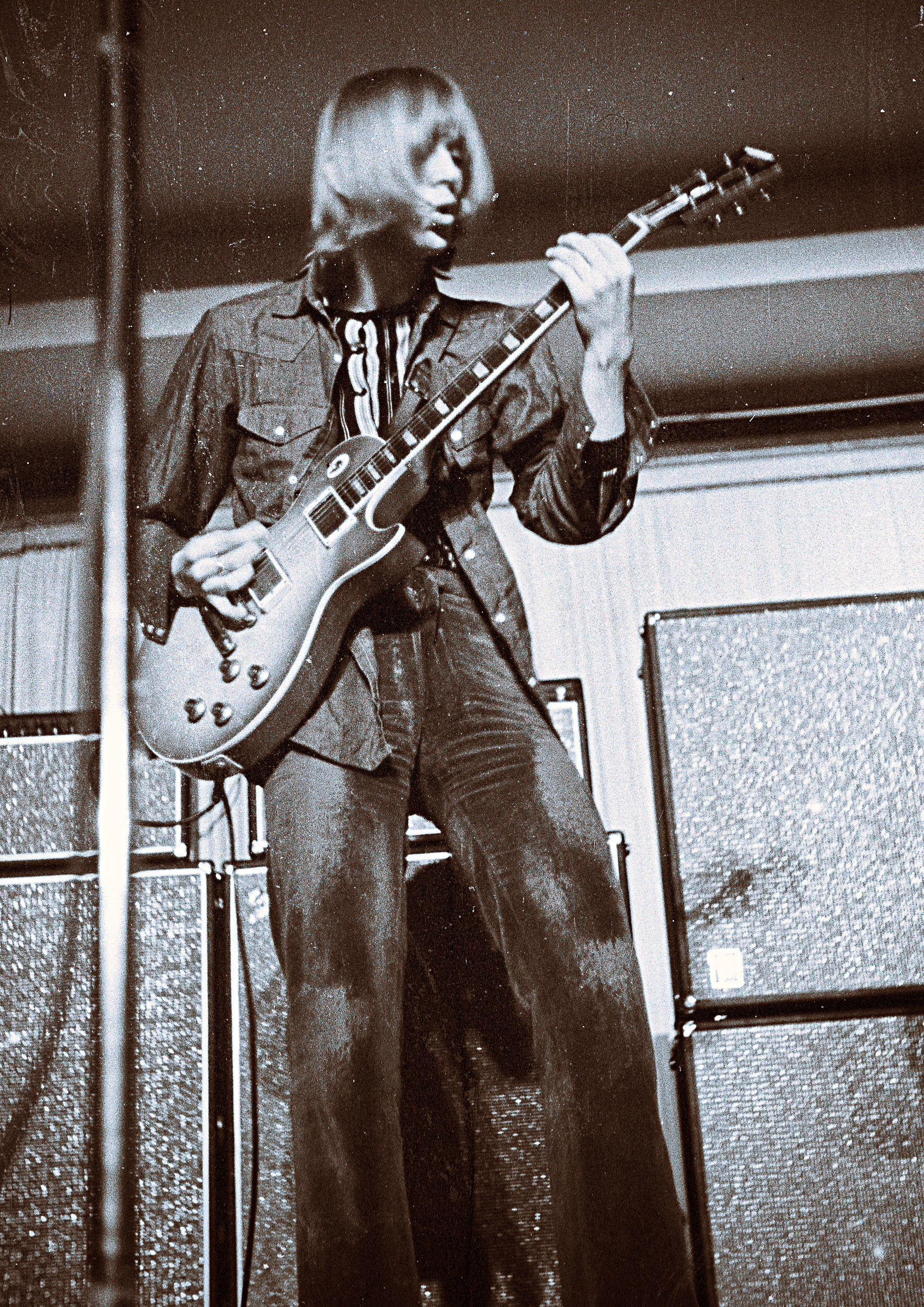 Danny Kirwan, Fleetwood Mac, March 18, 1970 Niedersachsenhalle, Hannover, Germany The Touring Band: Mick Fleetwood - Percussion, Peter Green - Lead Vocals/Guitar/Harmonica (left band in May), John McVie - Bass Guitar, Jeremy Spencer - Vocals/Guitar, Danny Kirwan - Vocals/Guitar